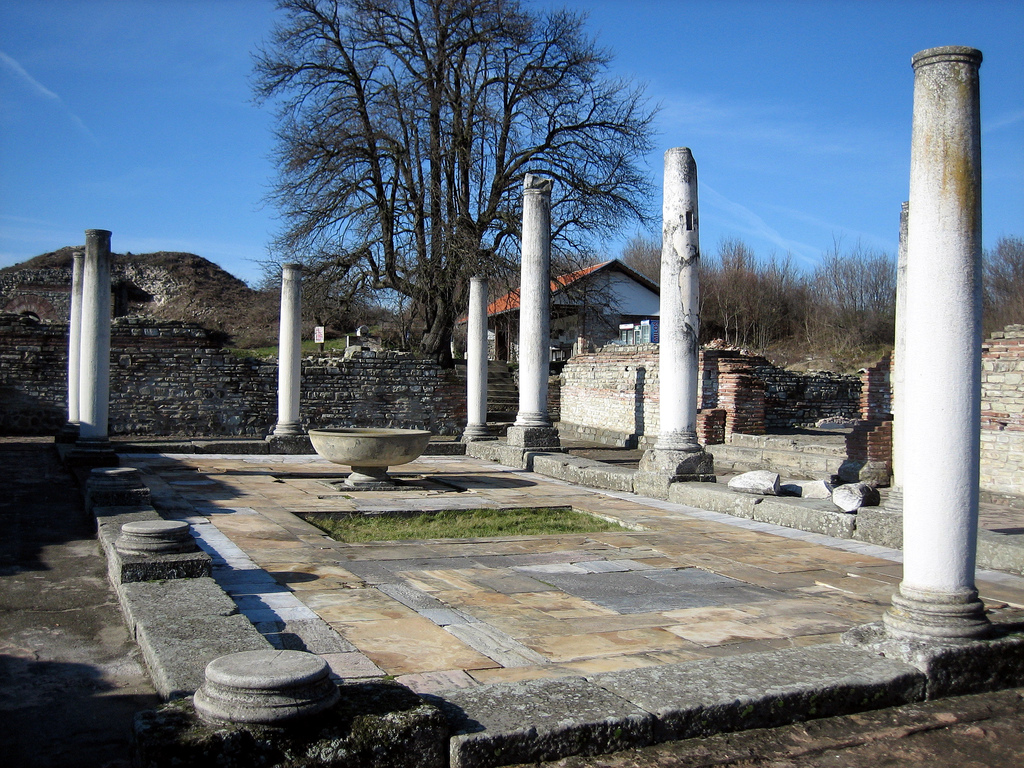 Peristyle from one of Romuliana's palace.